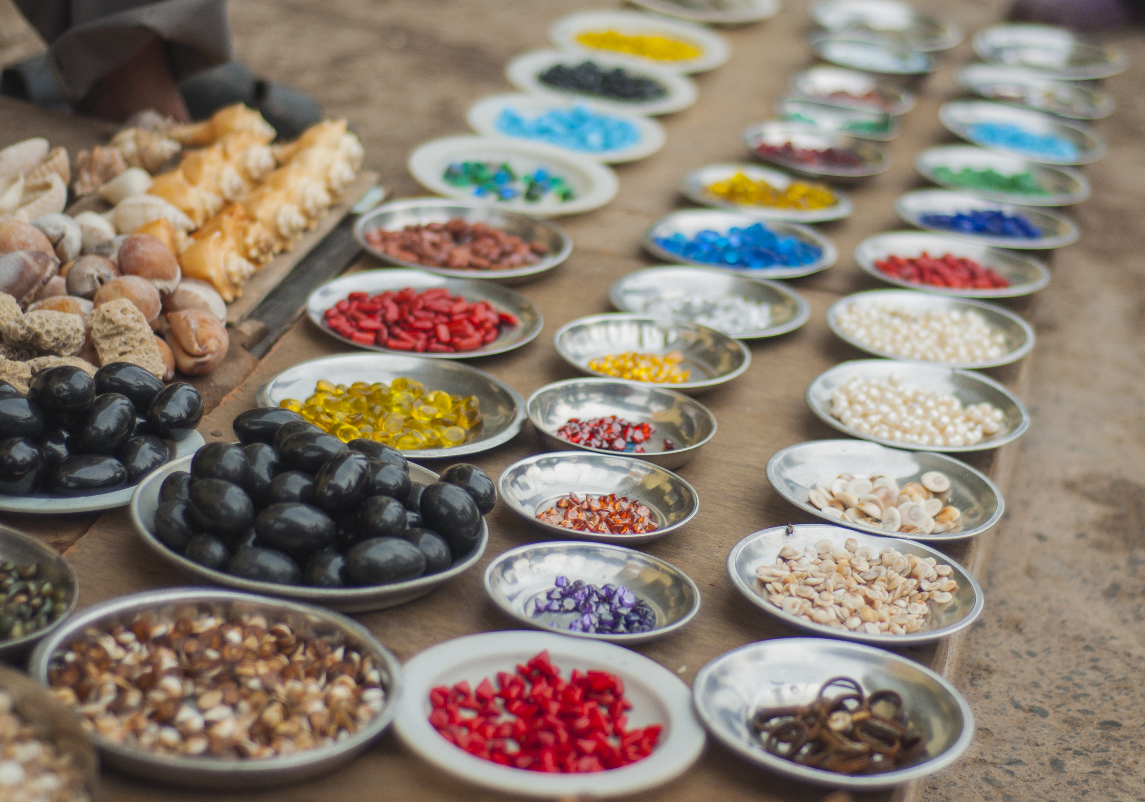 Good luck charm vendor at Dwarka, Gujarat. The products on sale are all for good luck. The nails ate used nails from a boat, supposed to bring luck. Different stones bring luck to people based on their brieth month.